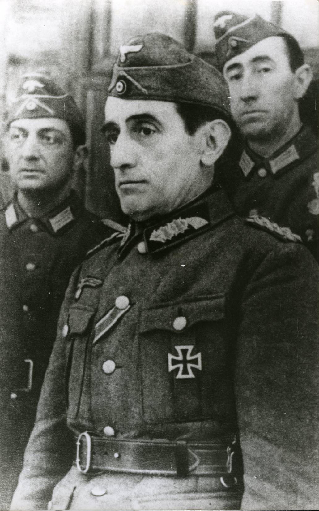 Spanish general Agustín Muñoz Grandes, commander of the "Blue Division", in Heer uniform